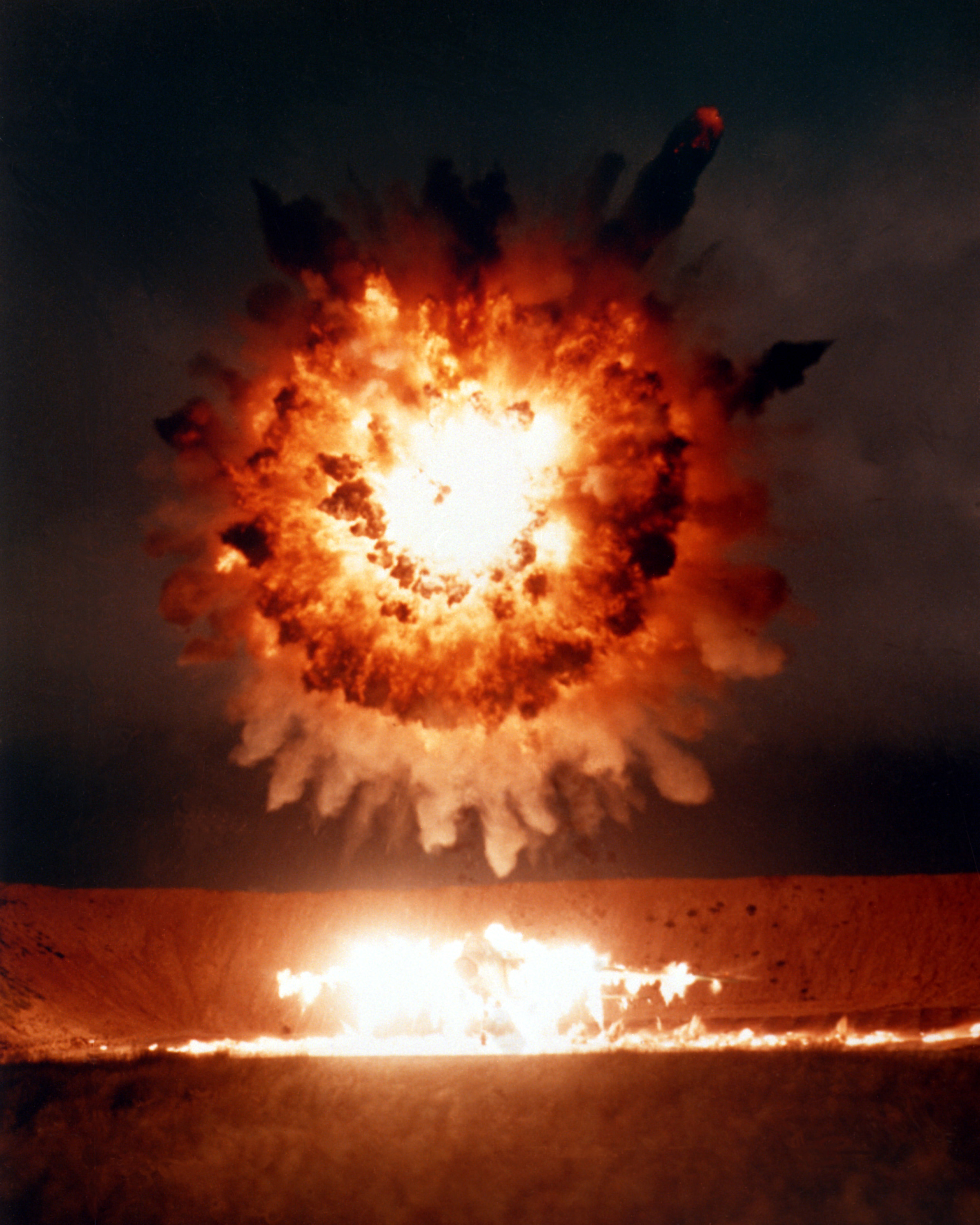 A U.S. Navy submarine-launched UGM-109 Tomamhawk cruise missile hits a North American RA-5C Vigilante target aircraft on San Clemente Island, California (USA), after a flight of circa 650 km.